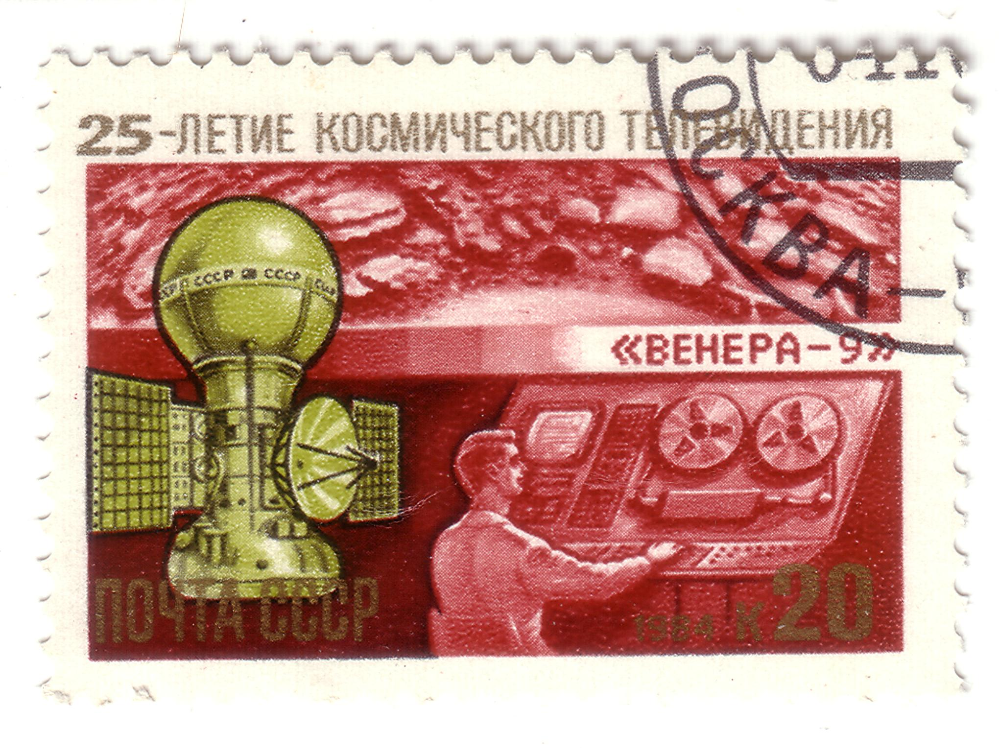 Stamp of the Soviet Union, Venera 9 (a USSR unmanned space mission to Venus), 1984.